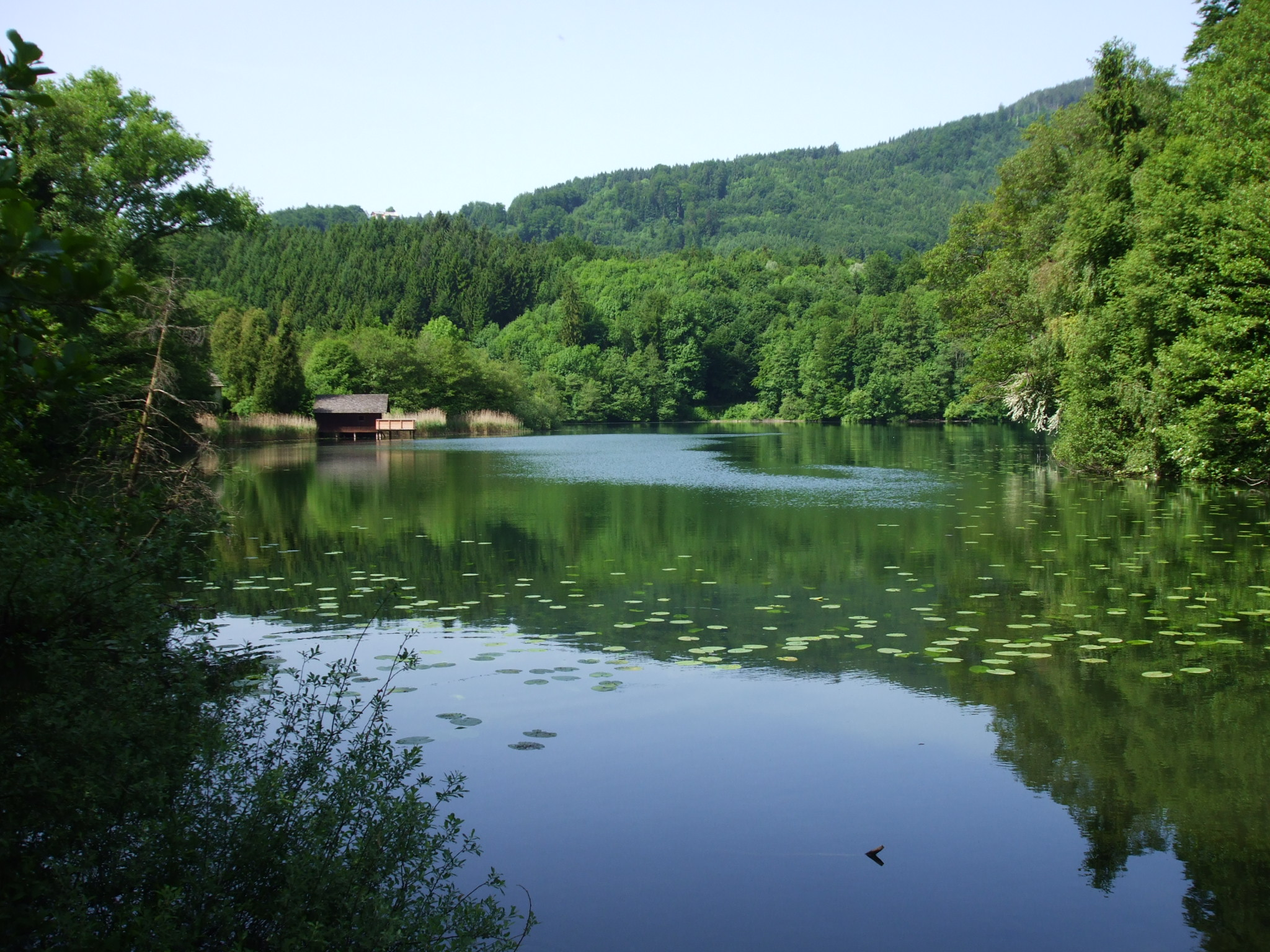 Lake Höglwörth near Anger, Bavaria, Germany